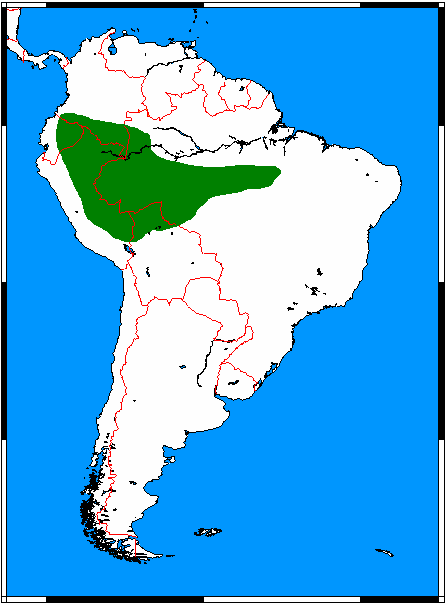 Short-eared Dog (Atelocynus microtis) range map, made by me with help of Map depending on the range map at IUCN red list.